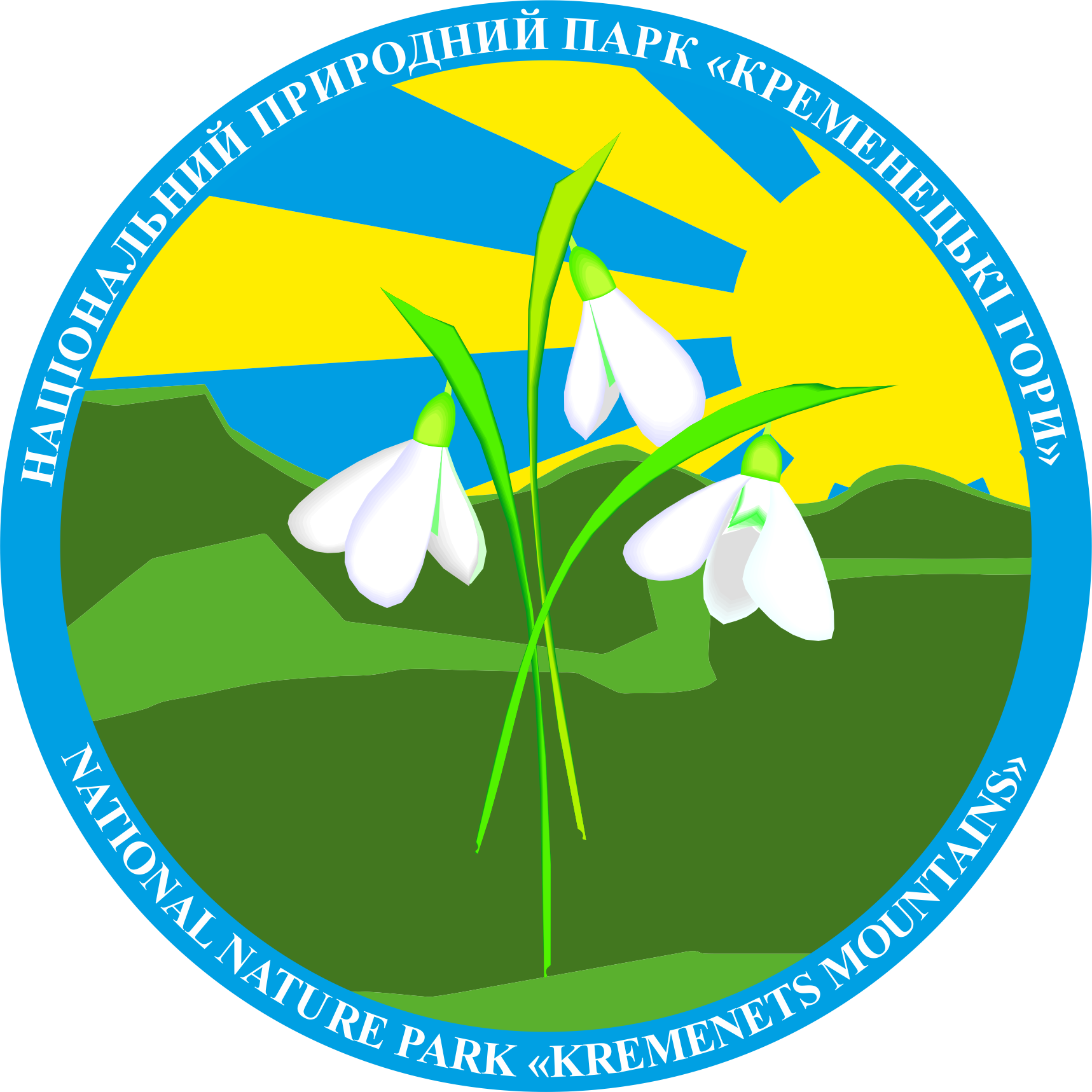 Національний природний парк «Кременецькі гори»